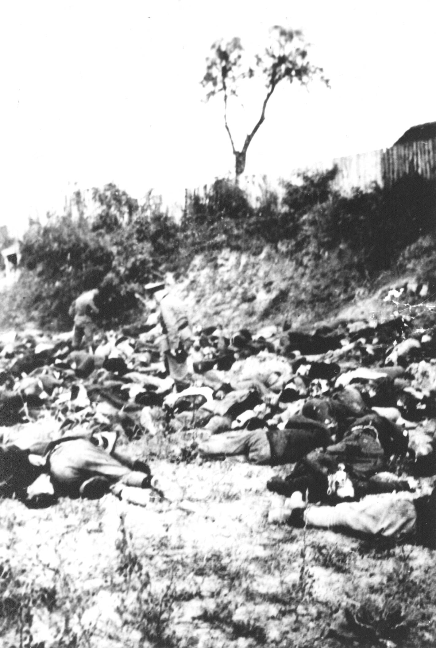 Streljani stanovnici sela Grgurevca, 6. juna 1942. godine. Nemački okupatori su streljali 257 Srba kao odmazdu za gubitke pretrpljene prethodnog dana.